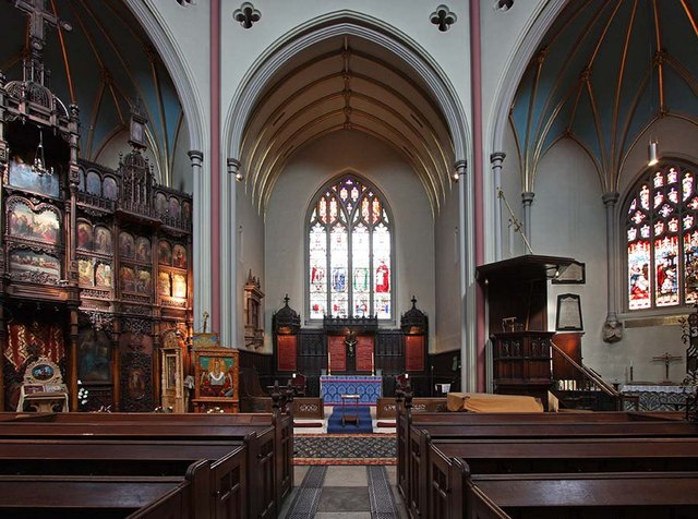 St Dunstan in the West, Fleet Street, London EC4 - Interior, near to London, City of London, Great Britain.